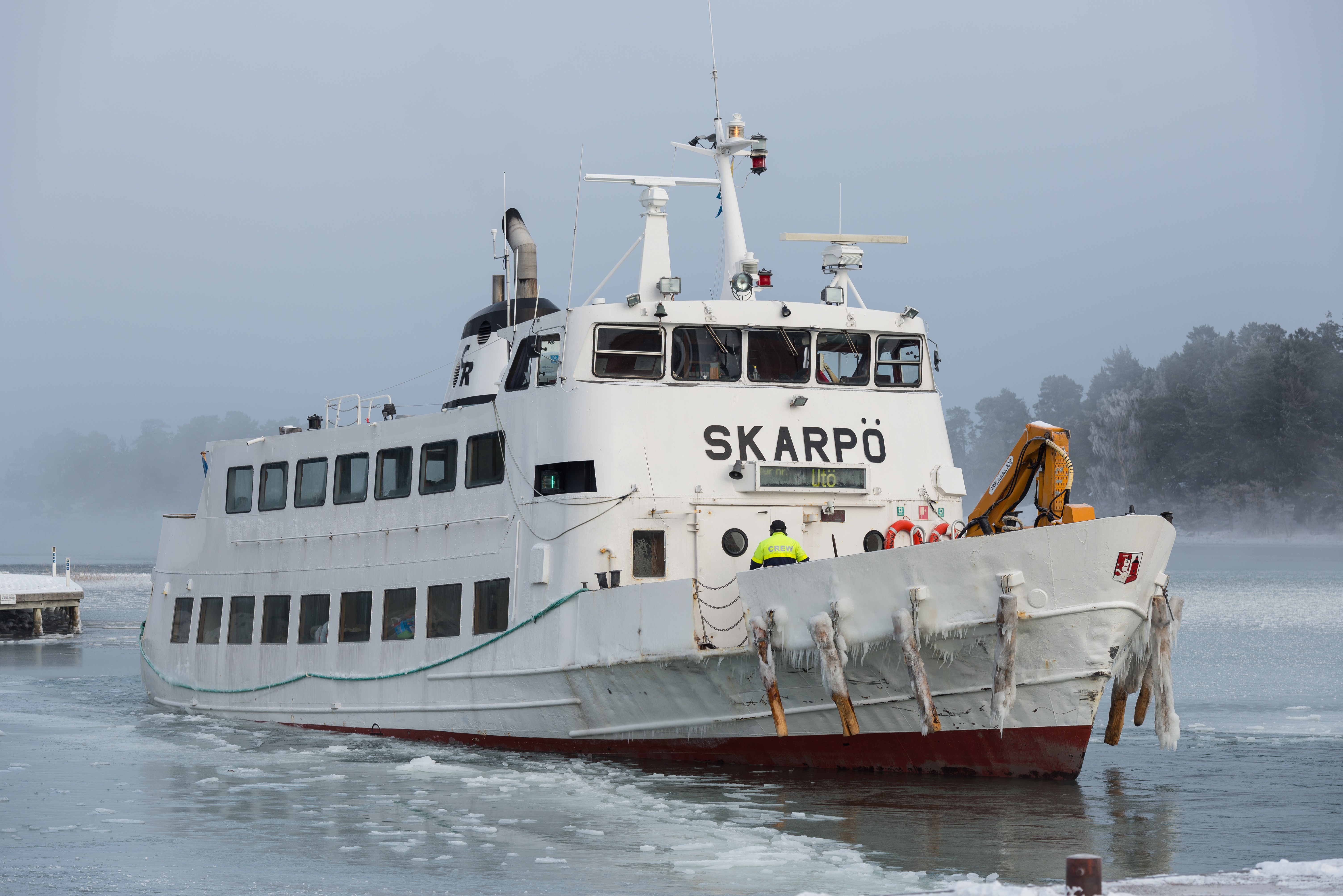 M/S Skarpö at Utö island, Haninge Municipality, Stockholm archipelago.